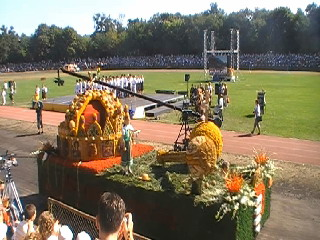 Hungarian Flower Carnival